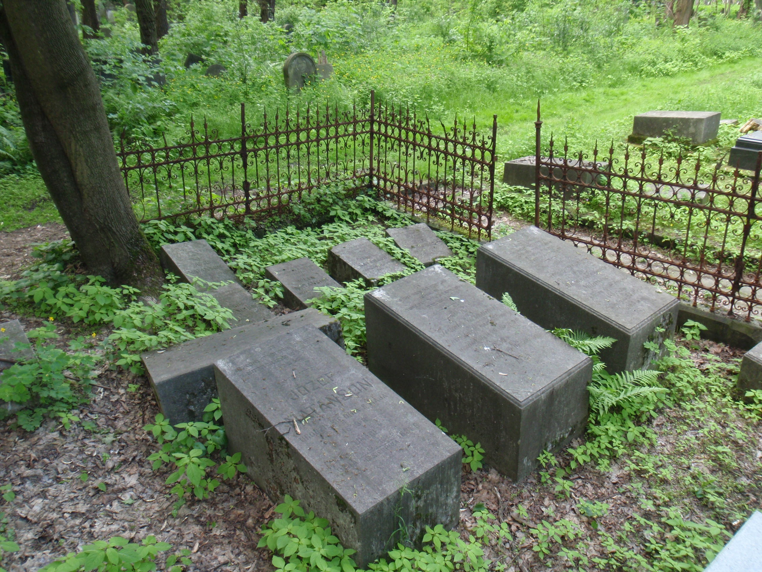 Graves of Natanson family - western part; first row left to right: Józef Natanson, Jakub Natanson